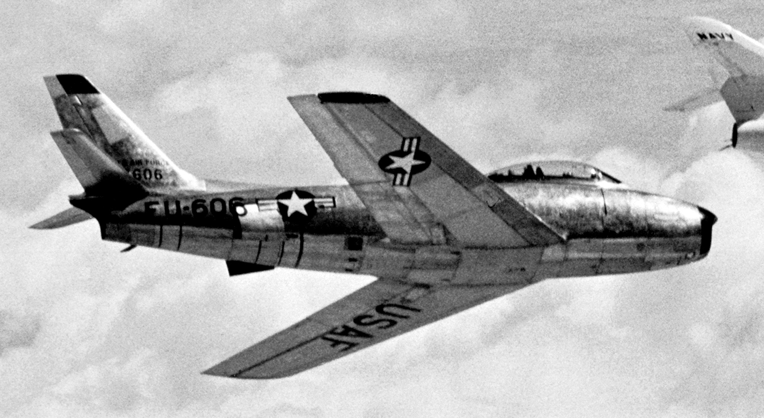 North American F-86 Sabre in flight